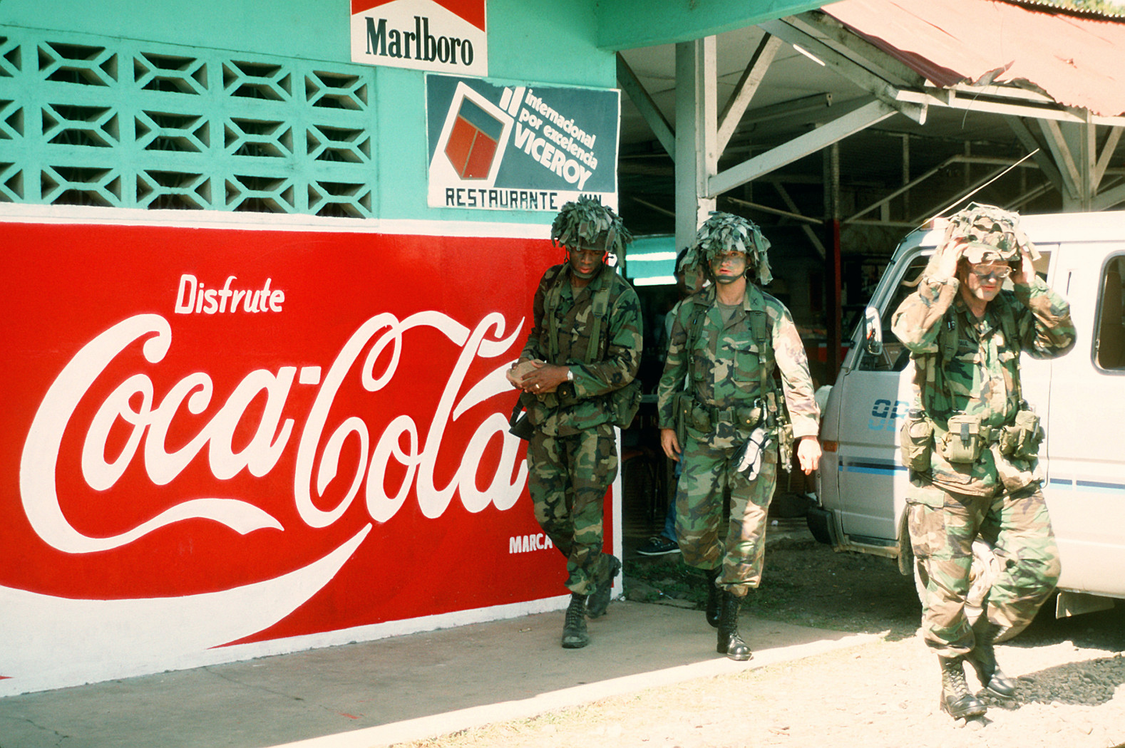 Three members of the 7th Infantry Division walk past a restaurant during Operation Just Cause.